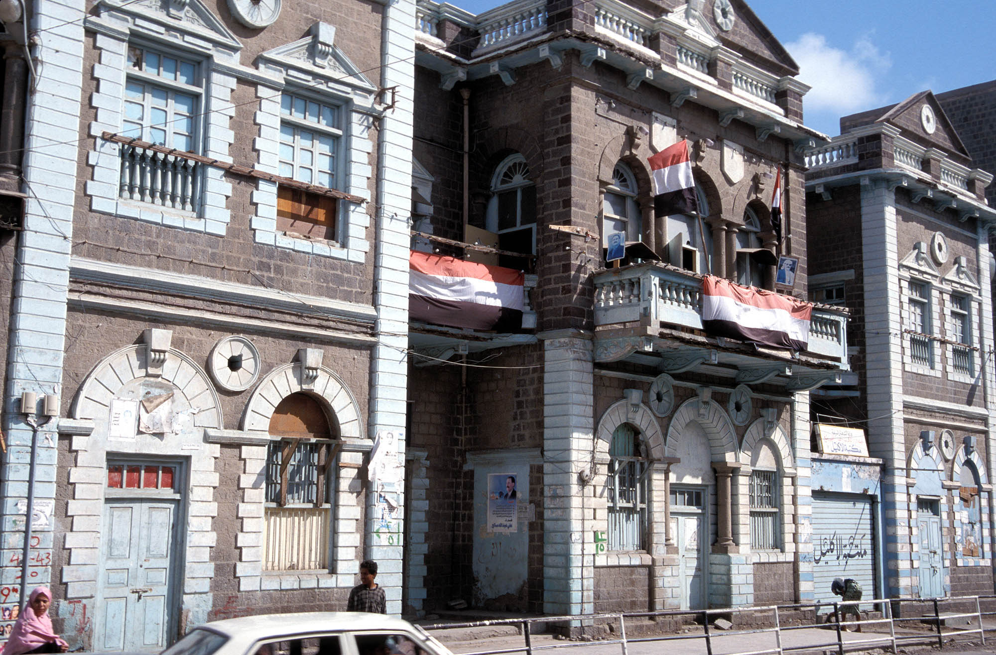 A street scene at the city of Aden, Yemen. British colonial architecture.